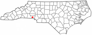 Category:North Carolina Dot Maps